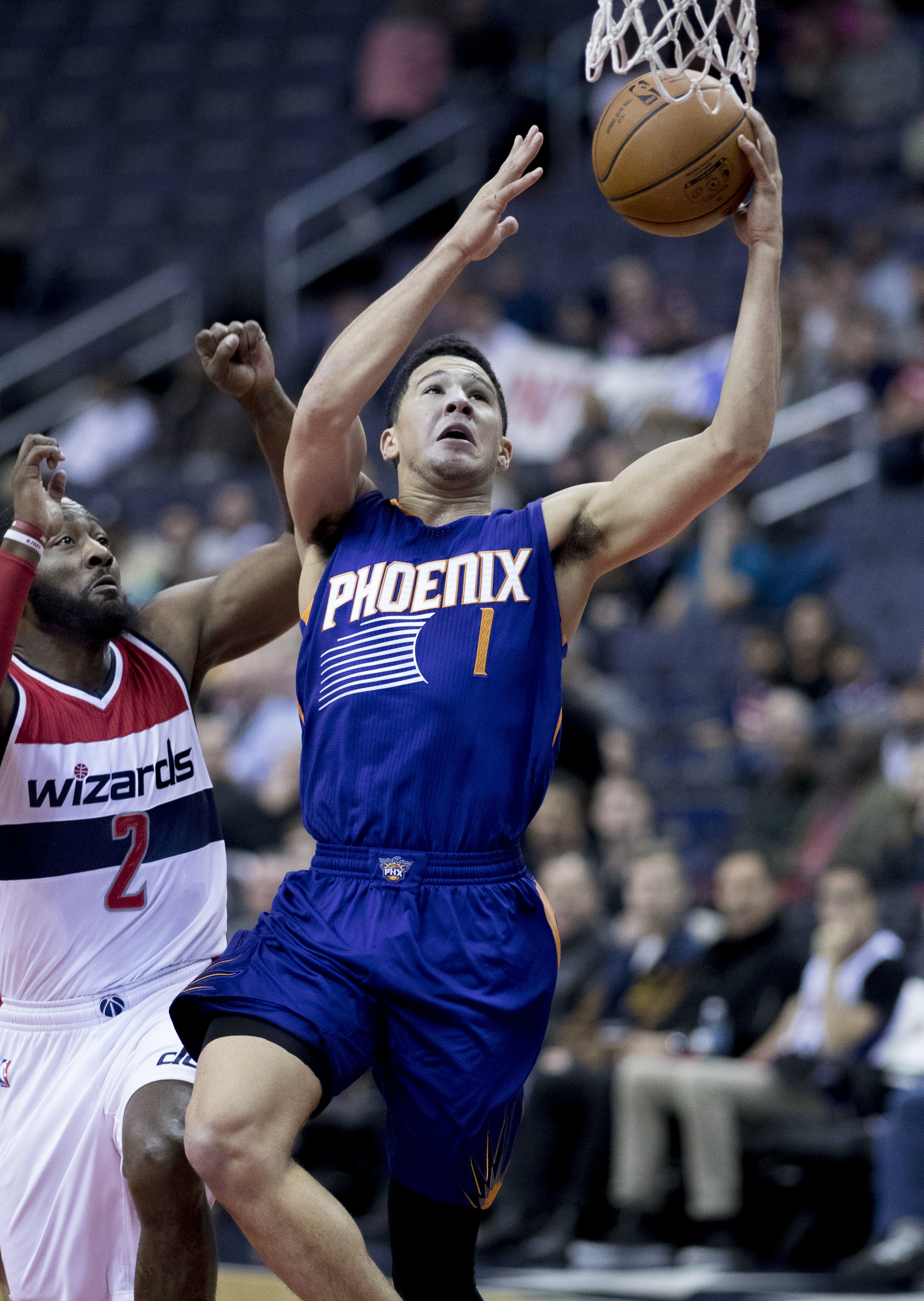 Suns at Wizards 11/21/16